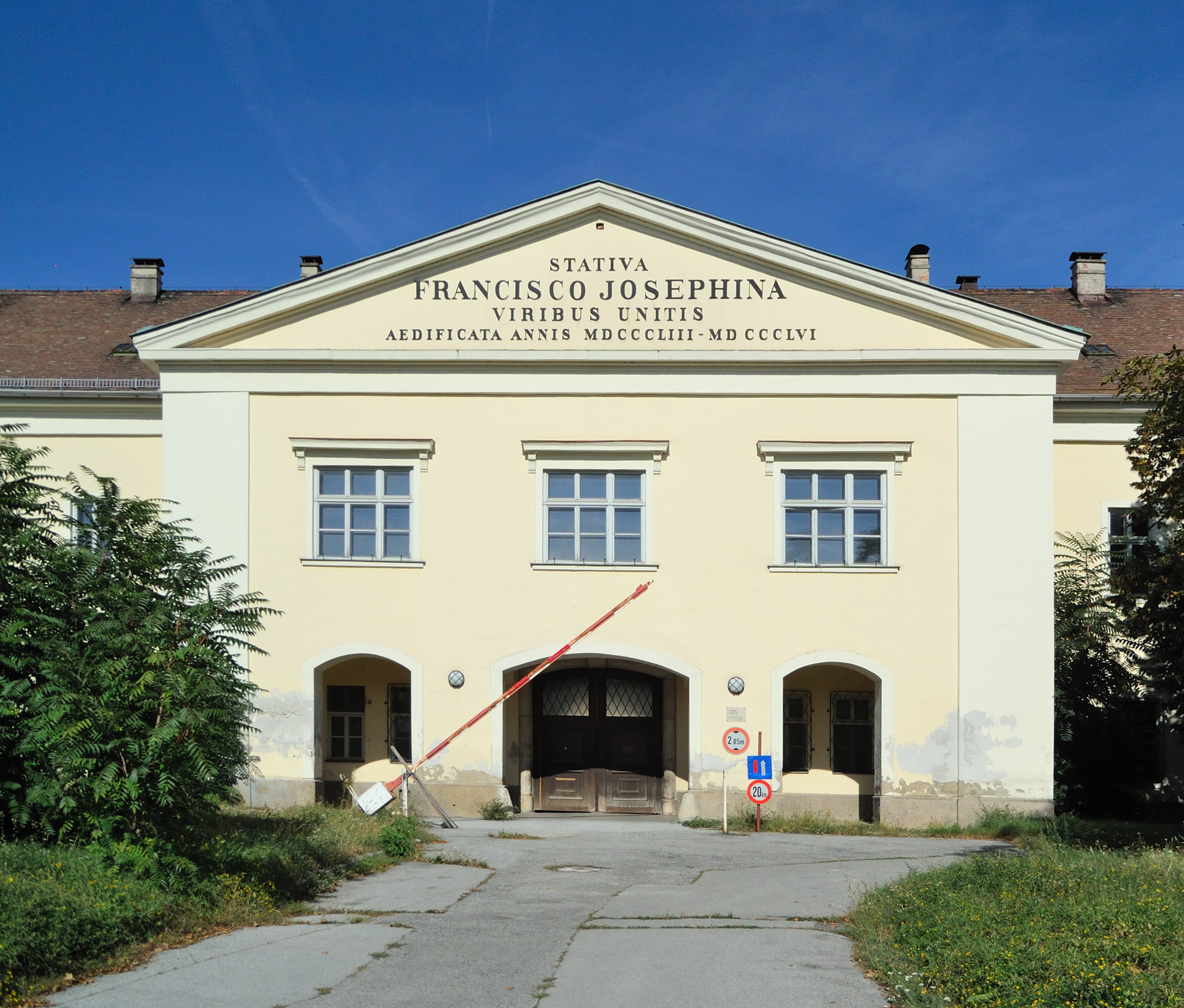 Former "Berger"-barrack in Neusiedl am See, Burgenland, Austria